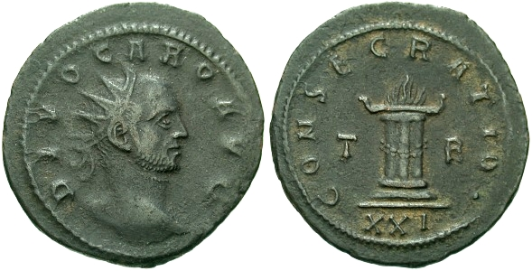 Roman emperor Carus on a later coin. Bronze antoninianus, 3.06g, 22.7mm, 180°, Tripolis mint, postumous DIVO CARO, radiate bust right CONSECRATIO, flaming altar, T R across fields, XXI in exergue From Forum Ancient Coins 283 Antoninianus Carus